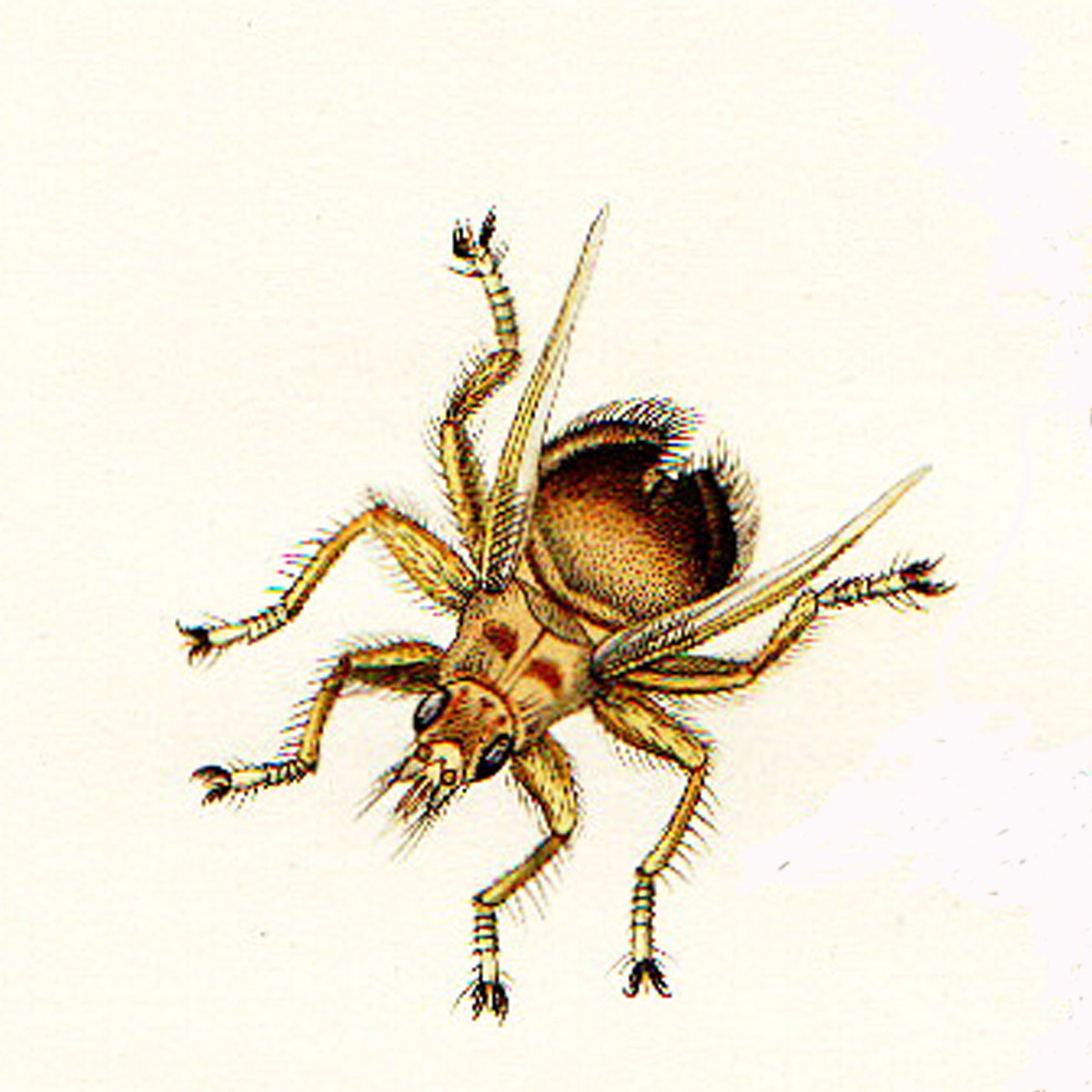 Stenepteryx hirundinis Plate from British Entomology, being illustrations and descriptions of the genera of insects found in Great Britain and Ireland